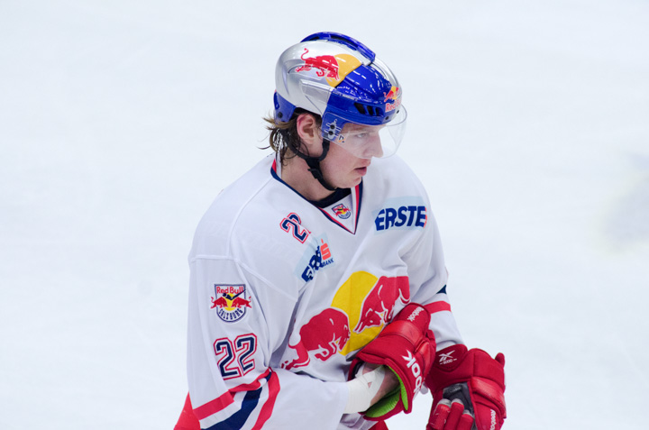 25.10.2013, Stadthalle Villach, AUT, EBEL, 27. Runde, EC VSV vs. EC RED BULL Salzburg, im Bild Matt Keith,(EC RED BULL SALZBURG, #22),// frostworx Pictures © 2013, PhotoCredit: frostworx / Alex Micheu